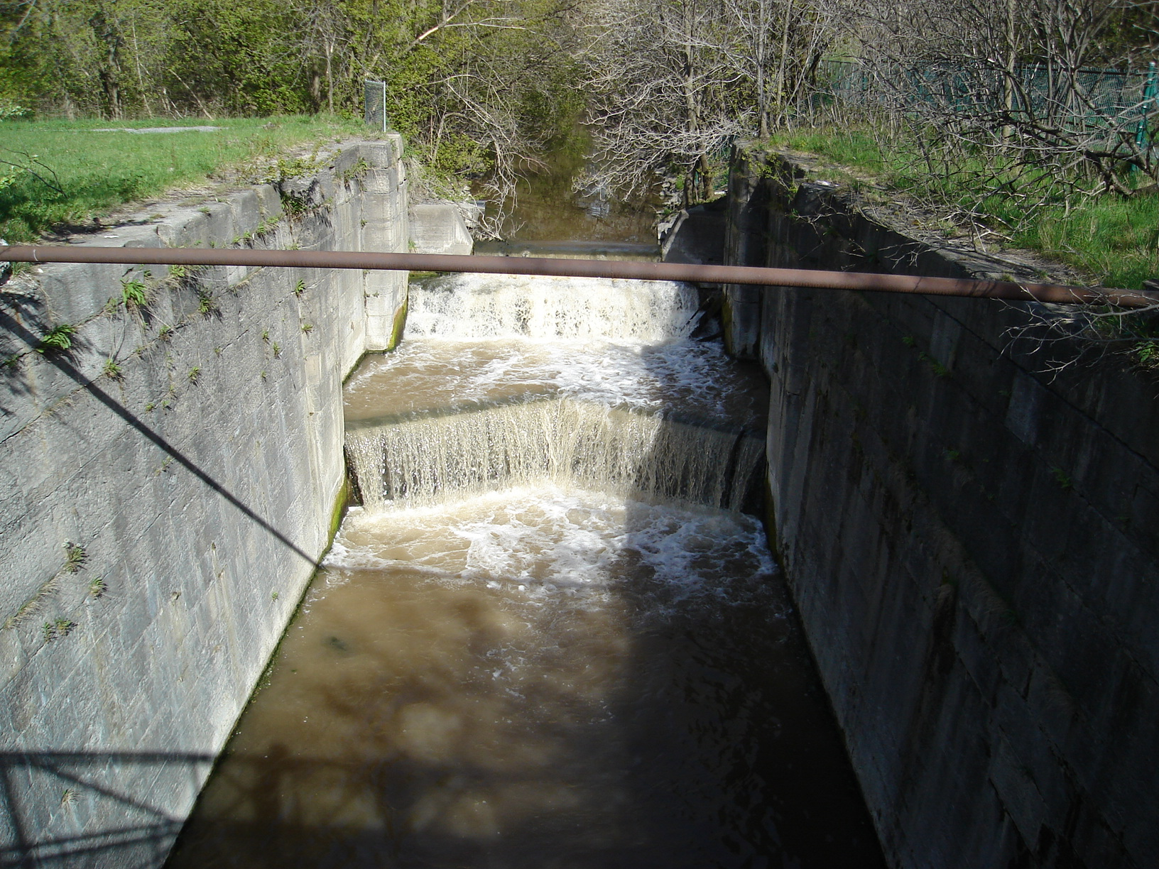 A now-abandoned lock of the Second Welland Canal in Merritton, Ontario.